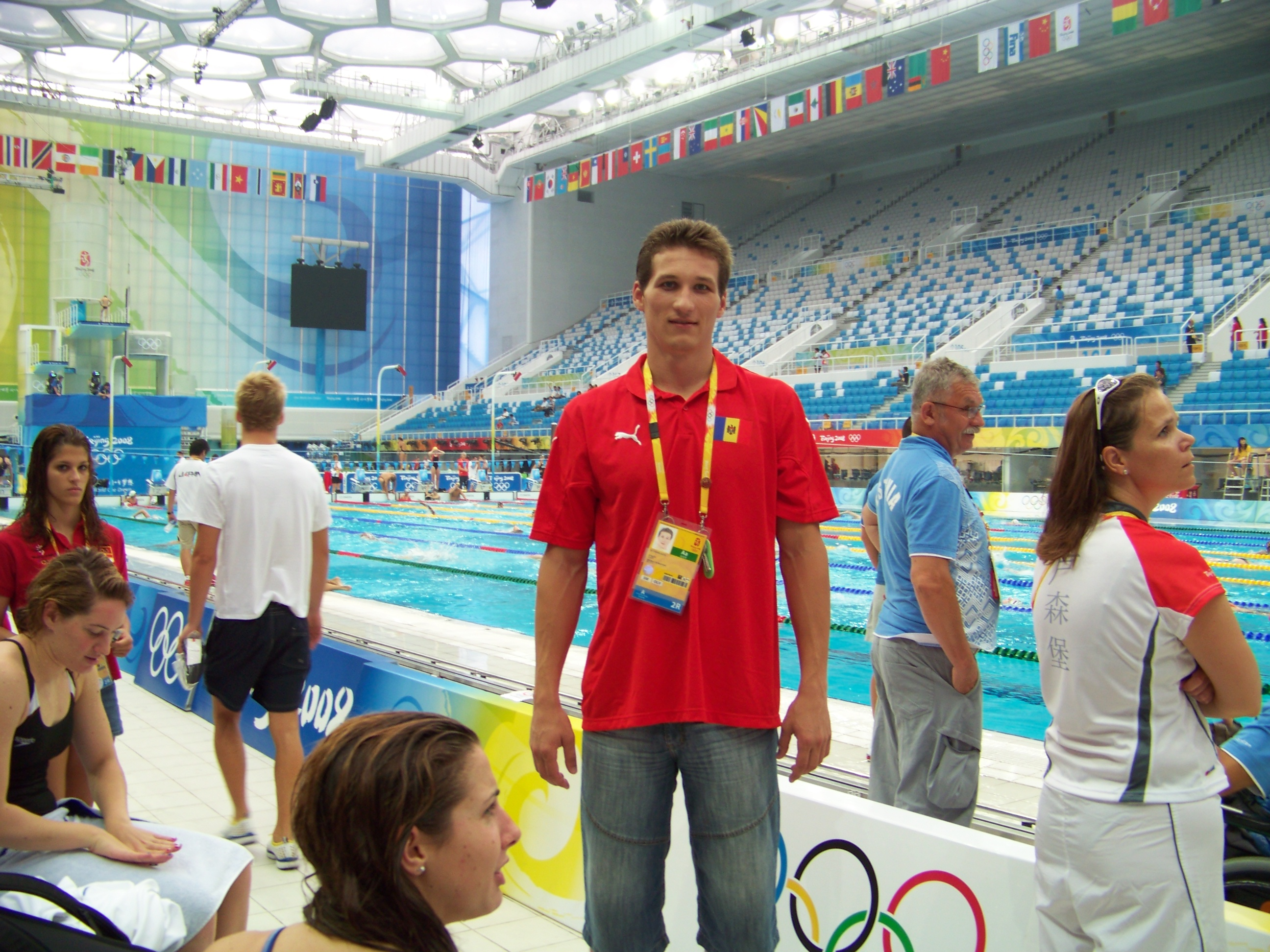 Octavian Gutu 2008 Summer Olympics Beijing